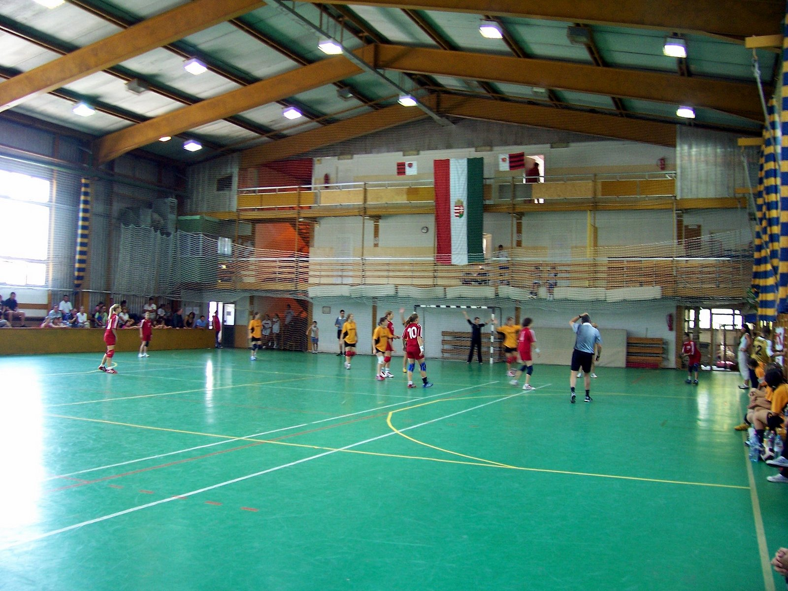 The sporthall inside